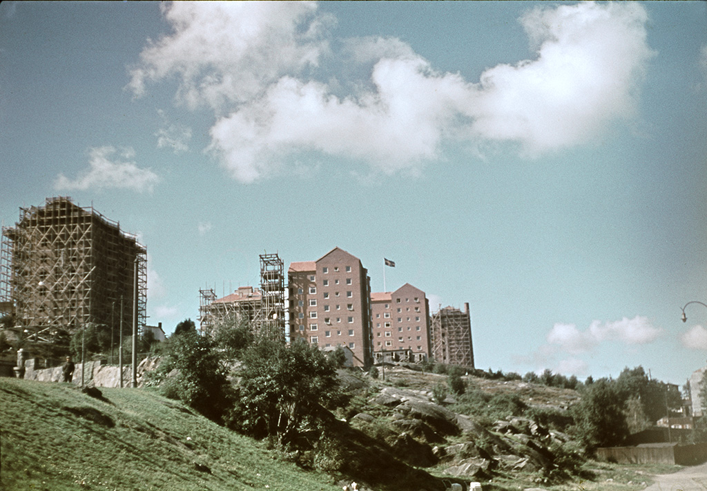 The North Guldheden area in Gothenburg, partly still under construction. Norra Guldheden i Göteborg, delvis fortfarande under uppbyggnad. Parish (socken): Göteborg Province (landskap): Västergötland Municipality (kommun): Göteborg County (län): Västra Götaland Photograph by: Fredrik Bruno Date: 1945 Format: Colour slide See a recent photo of the same view: Persistent URL: Read more about the photo database (in english)